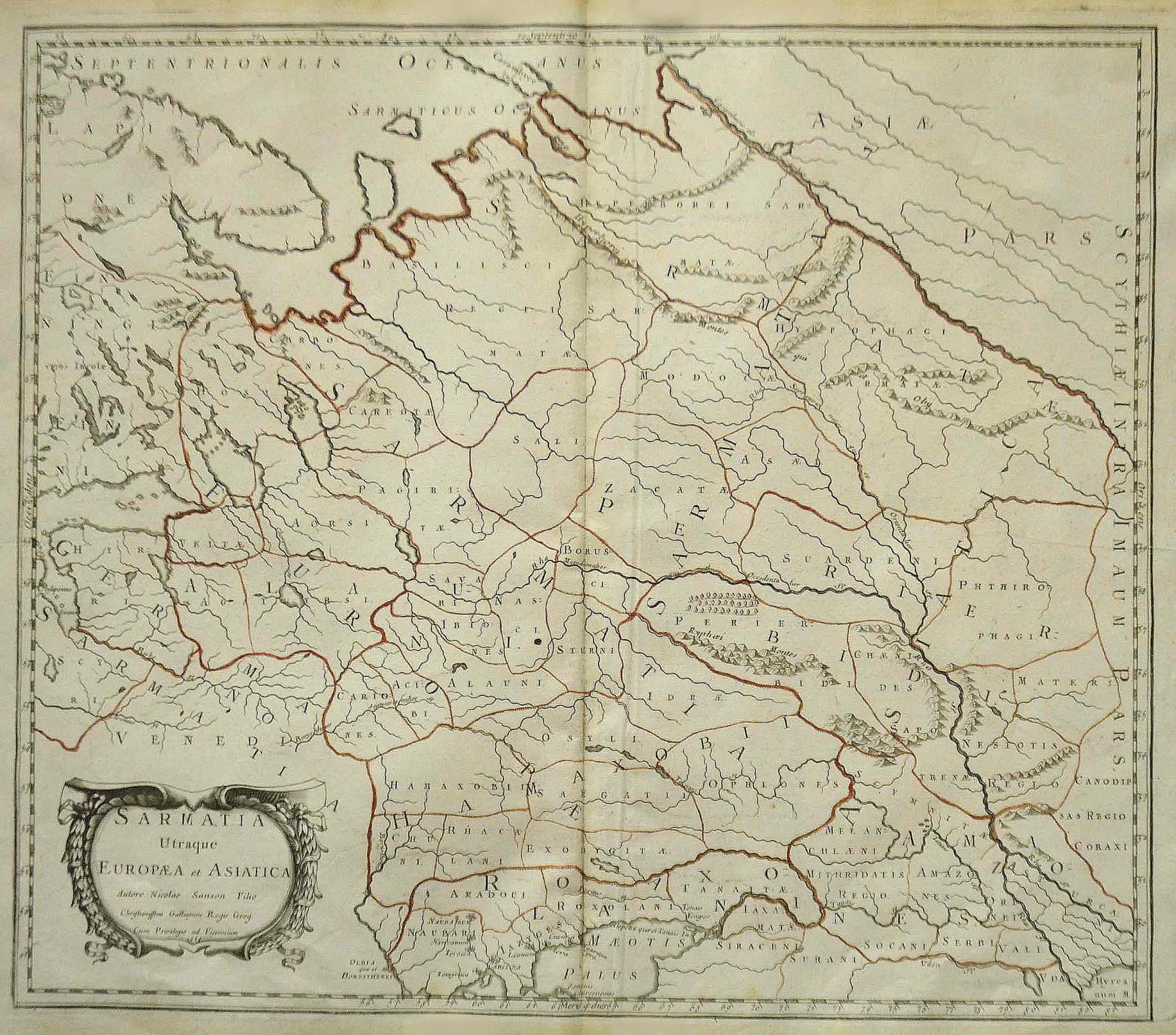 This original hand coloured copper-plate engraved antique map of the land of the Sarmatians - today stretching encompassing modern day European Russia and Ukraine and central Asia by Nicolas Sanson, was engraved in 1741 - dated in the cartouche - and was published by Robert De Vaugondy in a re-issue of Sansons atlas Cartes Generales de Toutes les Parties du Monde. For Greco-Roman geographers and ethnographers, Sarmatia was in western Scythia, bordering the Roman Empire. Nicolas Sanson, founder of the Sanson dynasty of map-makers, is considered by many to be the father of the French school of cartography. He was a prolific and original map-maker, admired for the clarity and scientific accuracy of his maps. Nicolas Sanson was to bring about the rise of French cartography, although the fierce competition of the Dutch would last until the end of the century. His success was partly owing to the partnership with the publisher Pierre Mariette. In 1644 the latter had purchased the business of Melchior Tavernier, and helped Sanson with financial support in producing the maps. In 1657 Pierre Marriette died, however his son, also named Pierre, co-published Les Cartes Générales de toutes les parties du Monde the following year. It was the first folio French produced world atlas.